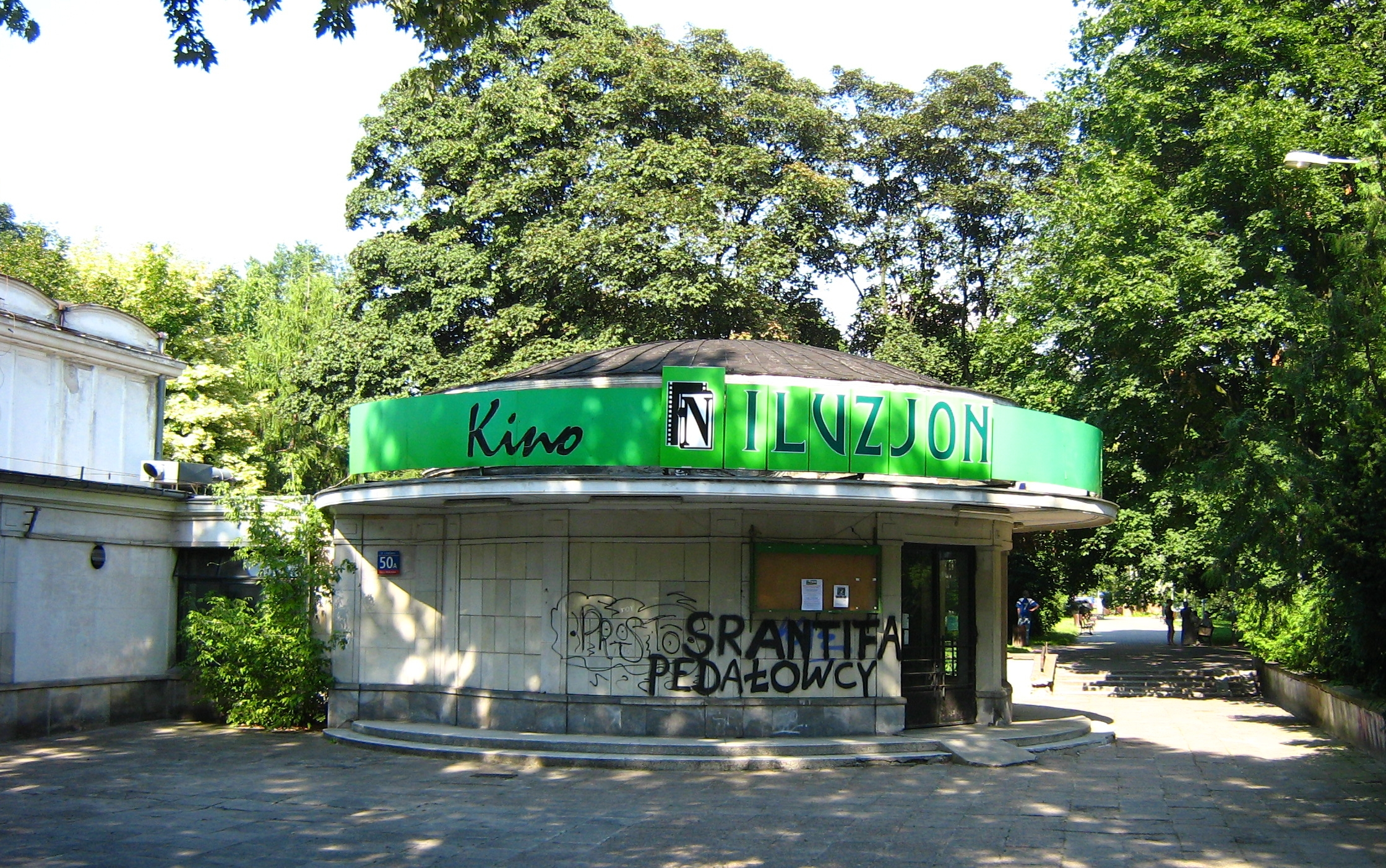 Former 'Stolica' and 'Iluzjon' cinemas building. Warsaw.